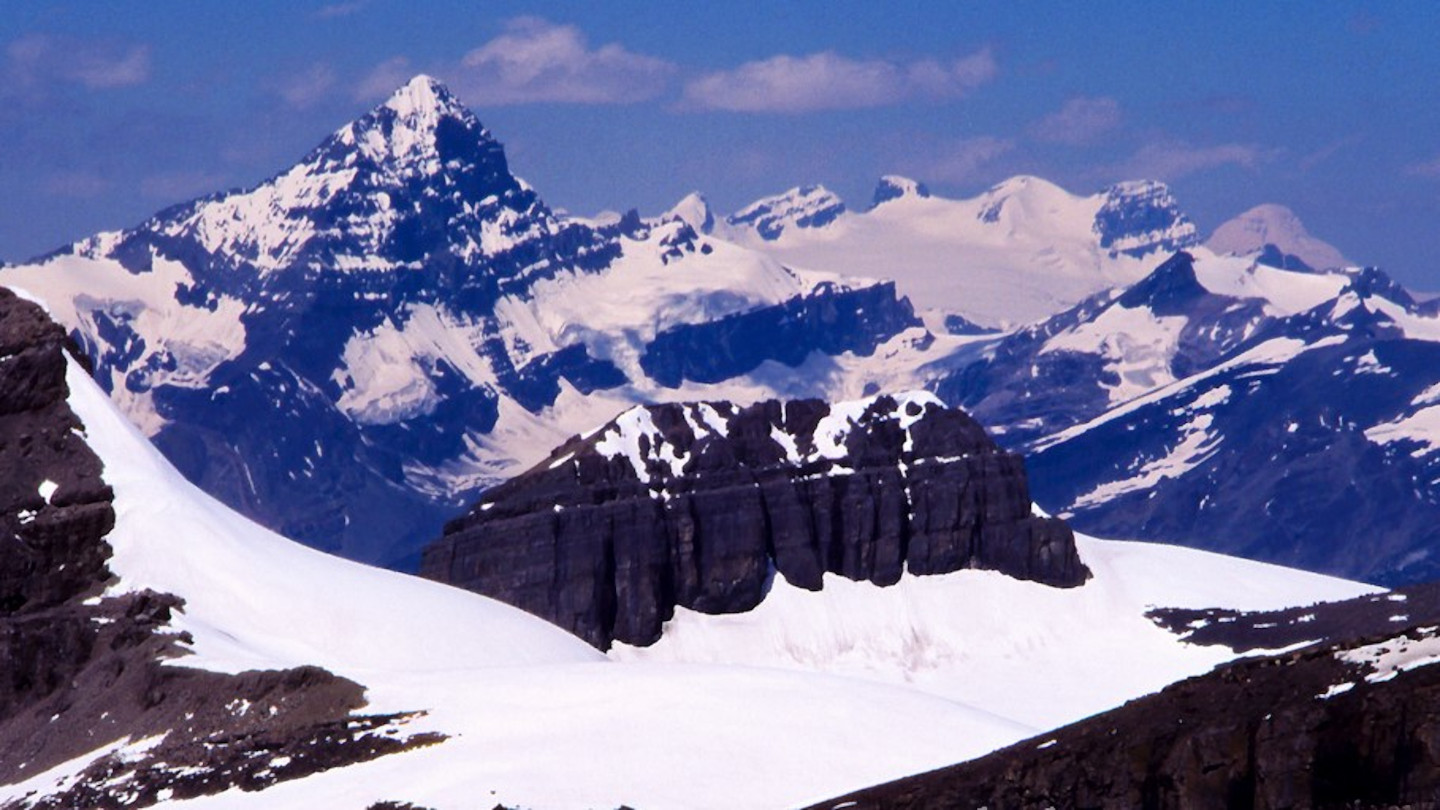 View from the summit of Mistaya Mountain to the NW: Mt. Forbes 305⁰ at 30 km (19 mi) away, Mt. Lyell 309⁰ at 45 km (28 mi) away and Mt. Columbia 311⁰ at 77 km (48 mi) away. All 5 subpeaks of Mt. Lyell - L5 through L1 - l-r) are clearly visible.